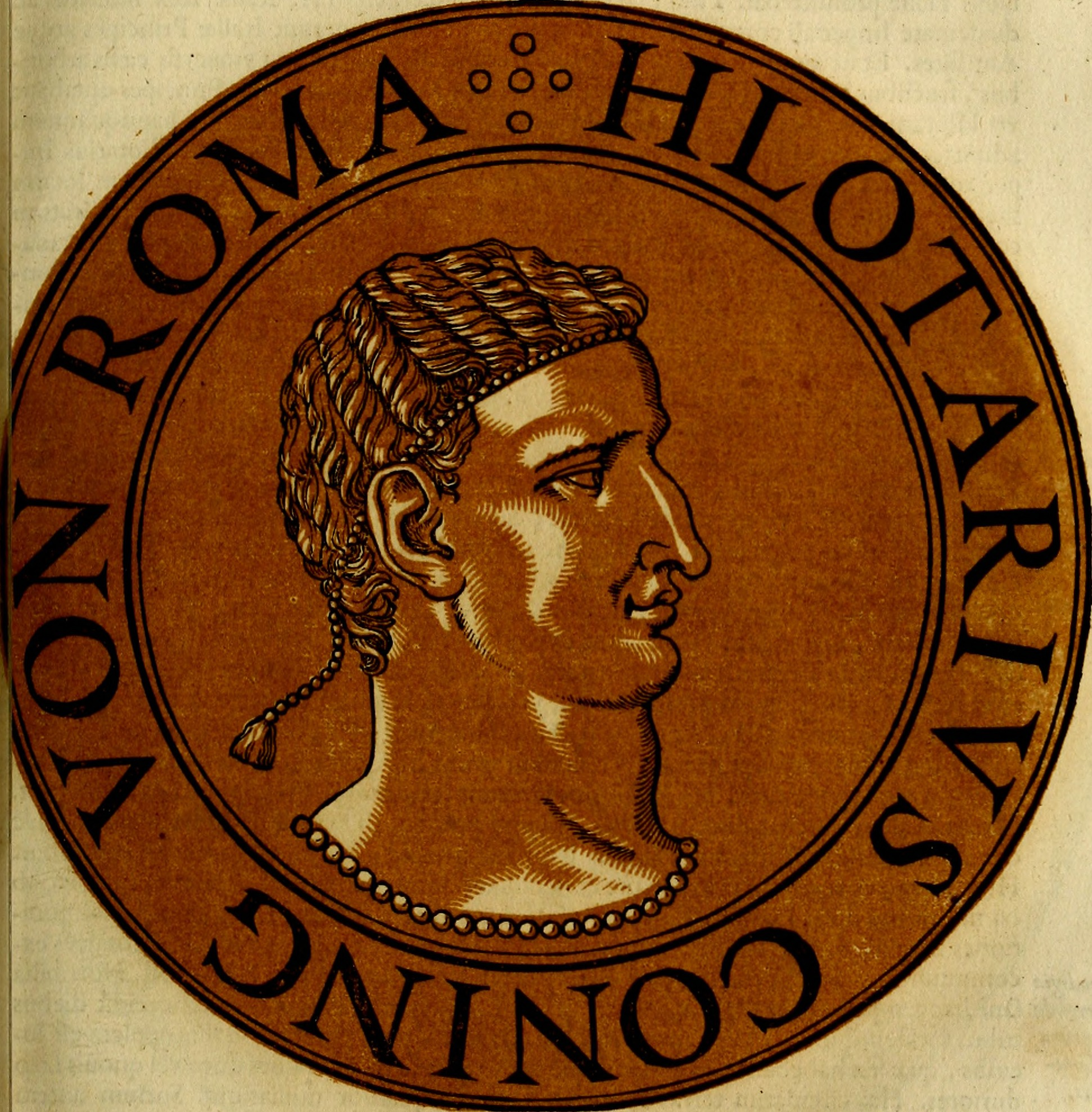 Title: Icones imperatorvm romanorvm, ex priscis numismatibus ad viuum delineatae, & breui narratione historicâ Year: 1645 (1640s) Authors: Goltzius, Hubert, 1526-1583 Gevaerts, Jean-Gaspard, 1593-1666 Rubens, Peter Paul, 1577-1640 Subjects: Emperors Emperors Numismatics, Roman Publisher: Antverpiae, Ex officina plantiniana Balthasaris Moreti Text Appearing Before Image: m a&az fuerunt fupra fexaginta. Turn ijdemciuitat&tvAnconam aggrefti, ceperunt,fpoliarunt,incenderunt. Poftremo Ifaliam deferen-tes3profev£iHynt in Illynum ac Sclauoniam, Hie ceperunt Ragufium, ac eiuitates multayalias;tantumq^e dan-mi Uituie*unt, vt ajiqui dixerint, Chriftianum nomen plane fuiiTe in-teriturum, niii mare nobis tandem fuppetias tulifTet, Turcafque cum fpolijs abfbrbuifTer.Interea temporis inuadebant Aquitaniam Nortmanni, cunclaq^ie depopulabantur ; &quia nullus erat qui reiifteret, proncifcebantur per vniuerfam Galliam, Geldriam, Hol-landiam, Zelandiam,redibantquepefFtandriam ac Picardiam in Aqqitaniam. Hicfe-dem fecerunt, appellaruntque earn Nortmandiam. Et quidem quod Carolo Caluo Gal-lia cqnagiflet, voluit hinc Nortmannos expellere. Verum haudquaquam potuit; atqueideo aRo tempore Nortmanni in Aquitania manferunt. Carolus vero Caluus vel quin-quennio aduerfus Angliam bella gefllt, donee tandem & fibi fubegiflet. /; ■\ I 225 c x v. VBI MEL, IBI FEL. Text Appearing After Image: xv. annorum cum filijsHludouico II. StHlotario II. Imperator,monachus fa£hisin monafterio moritur. Ff